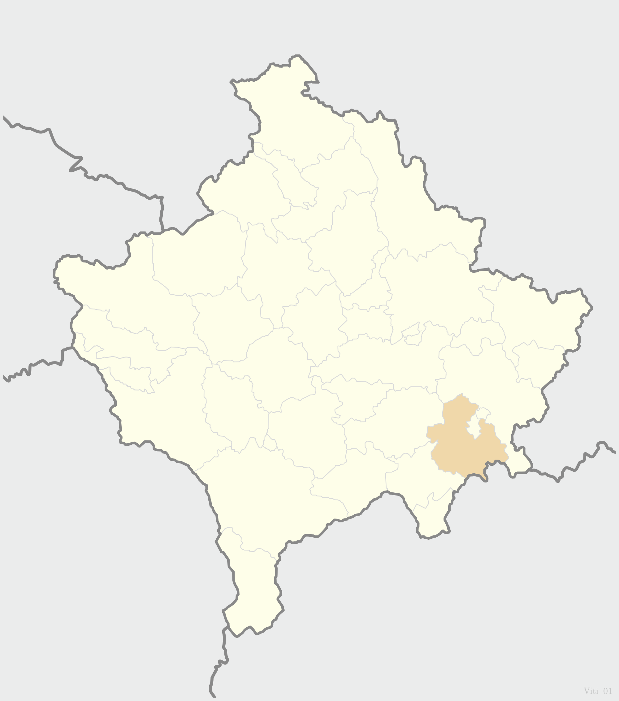 Municipality of Vitina map